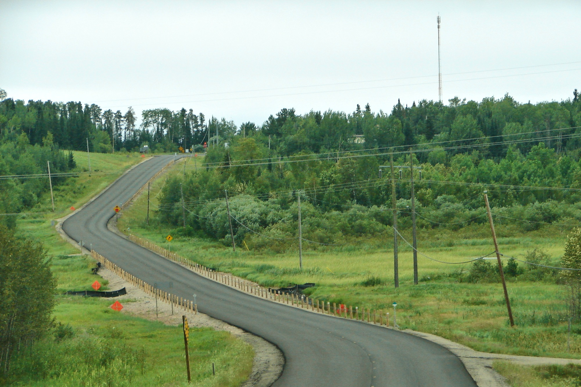 Highway 72 not far from Dinorwic, Ontario, Canada